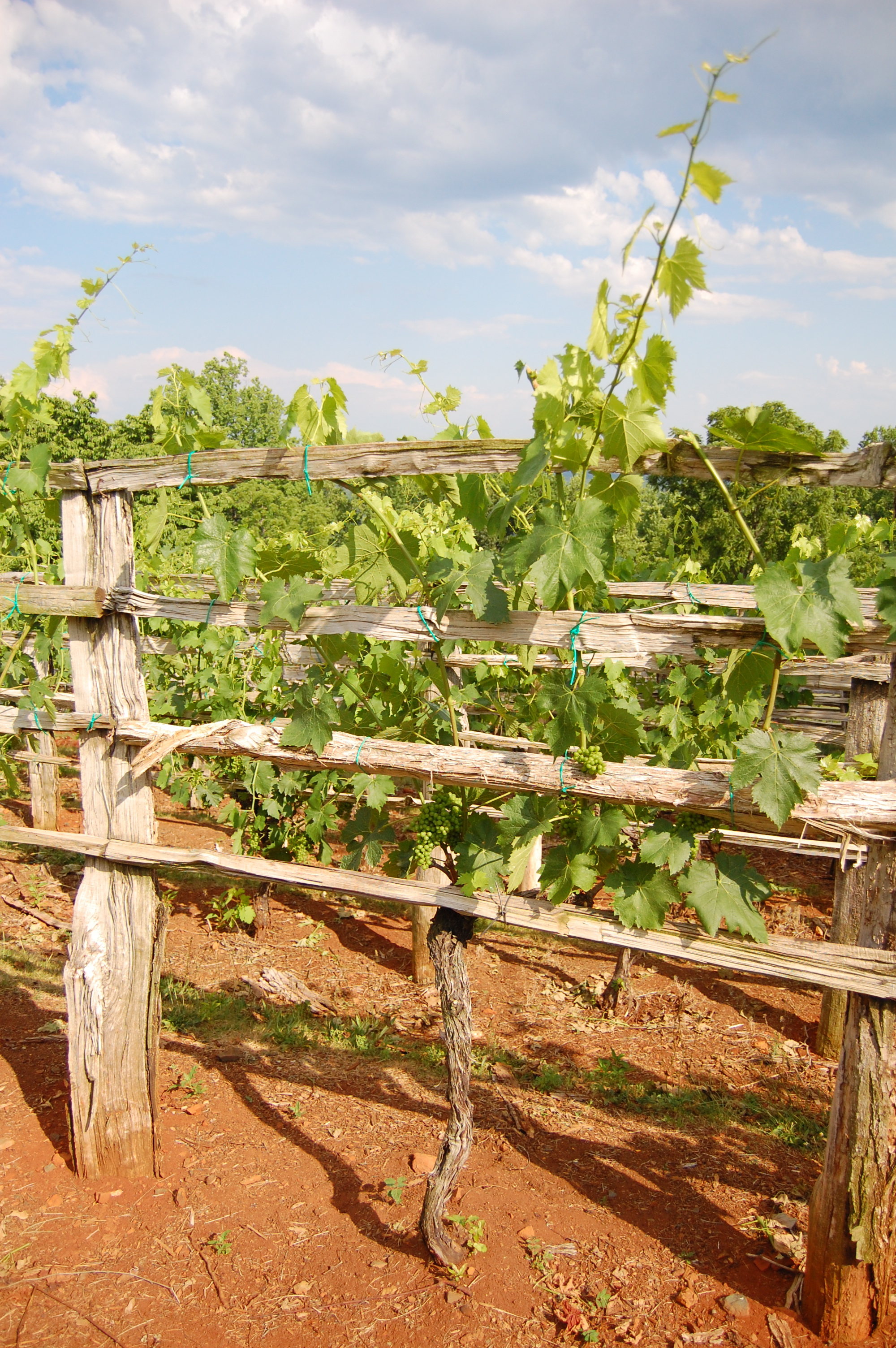 Monticello & Gabriele Rausse - Charlottesville, VA Photo by Amy C Evans, SFA oral historian. A fence is being used as trellising. June 2008